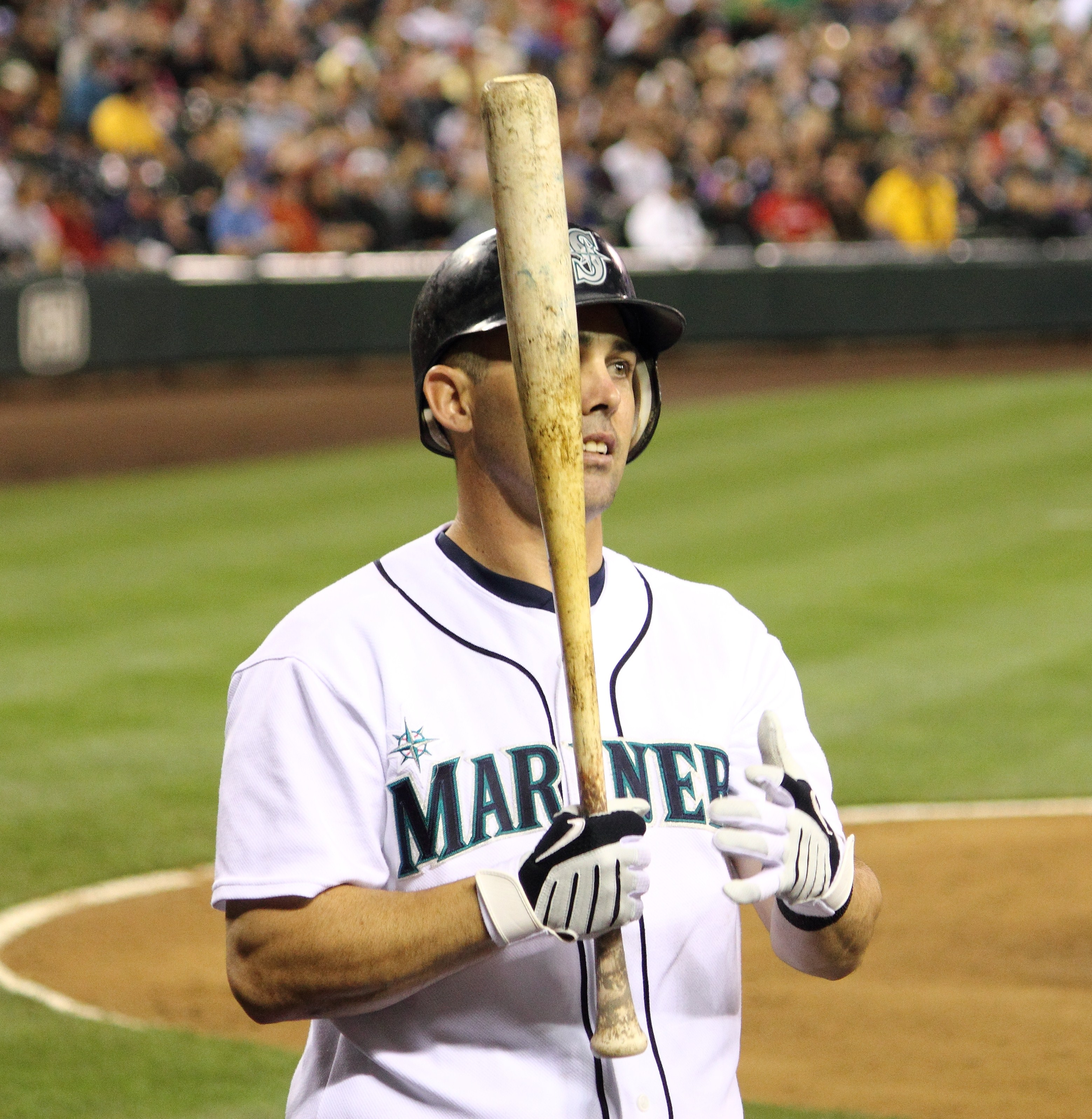 Pictures from the Seattle Mariners vs. Kansas City Royals, August 7 2010. Sitting in the Diamond Club seats behind home plate.